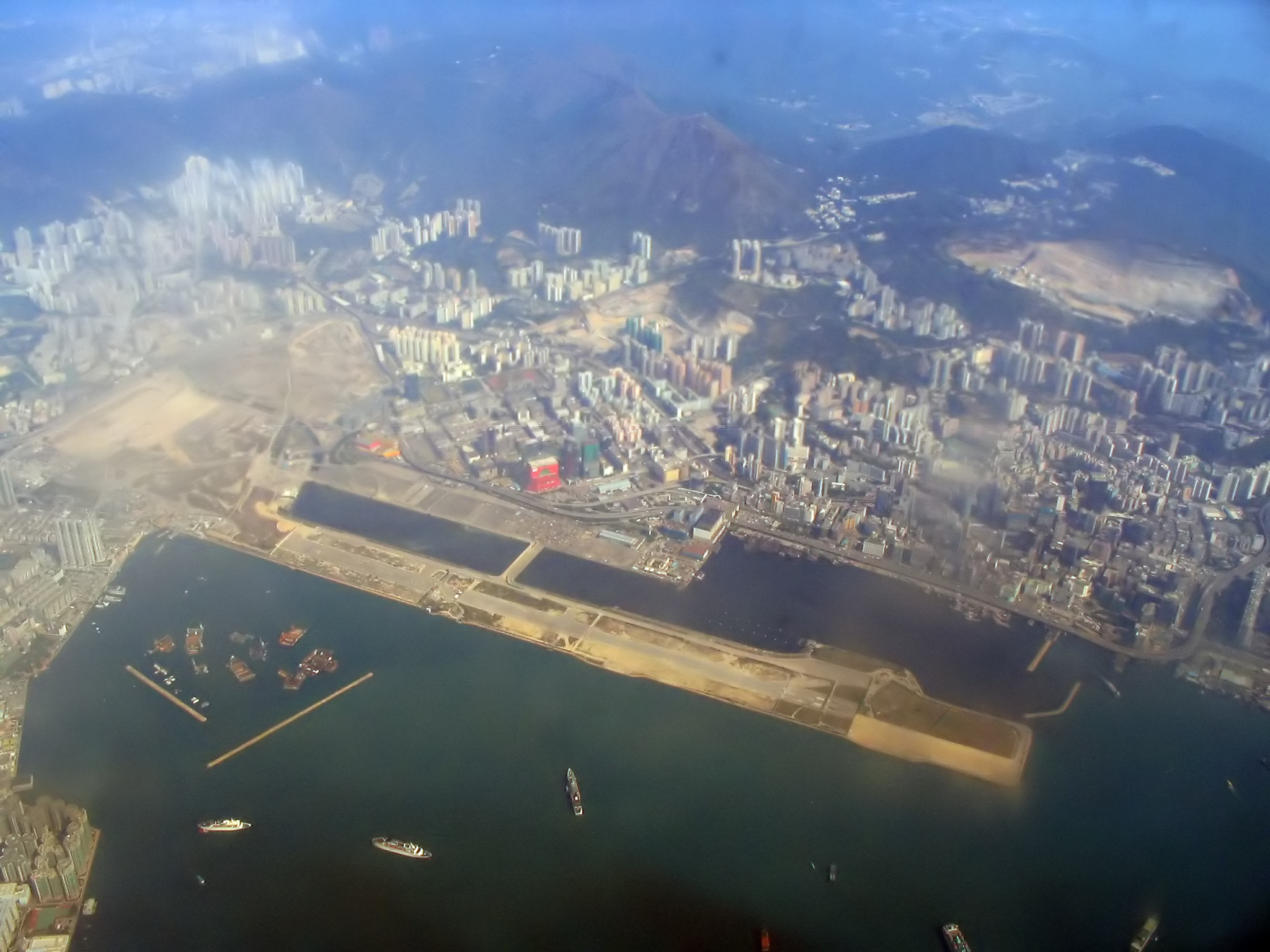 Photo of Kai Tak Airport